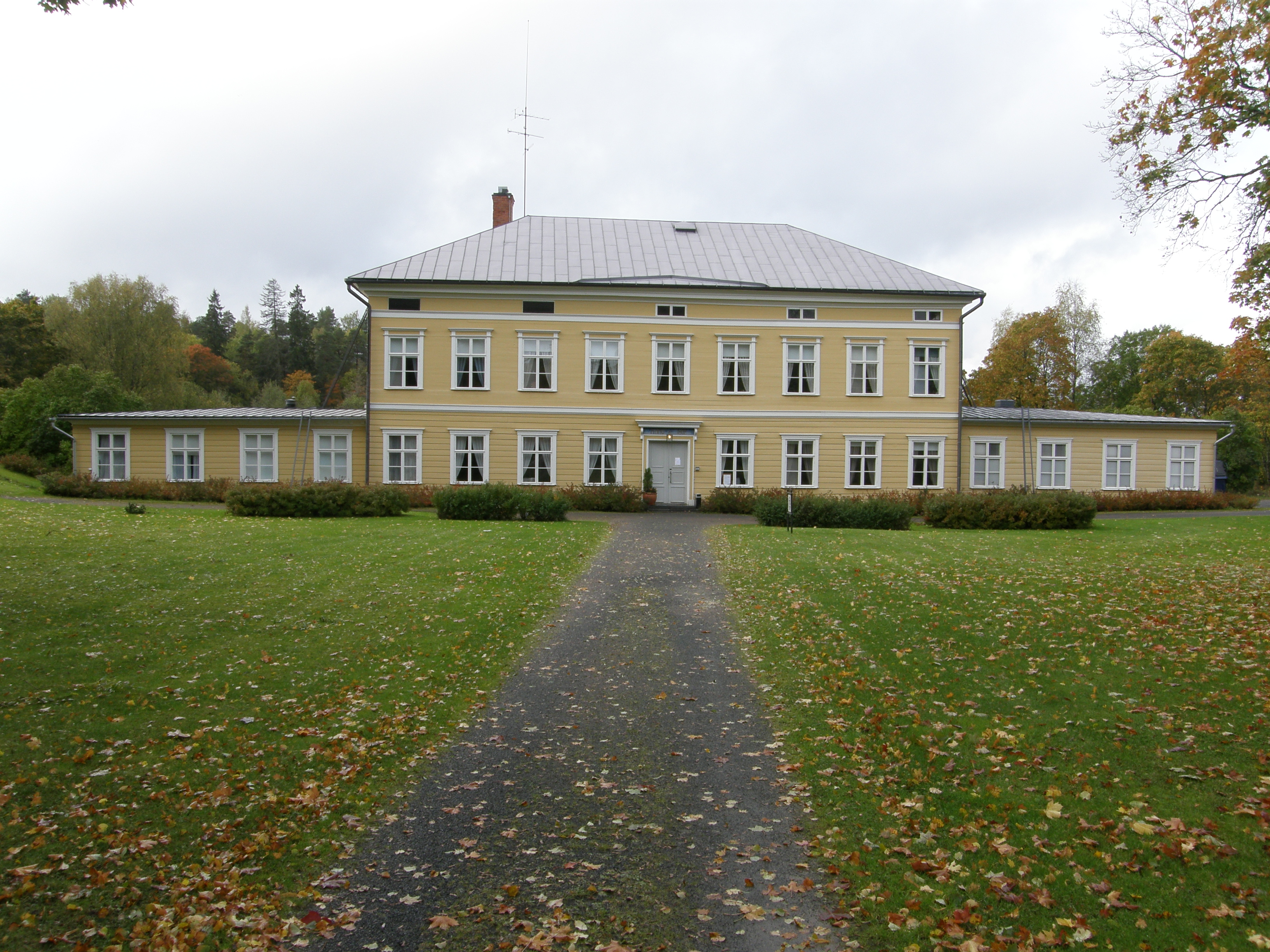 Restaurant Kauttua Clubhouse in Eura, Finland. Ancient mainhouse of the Kauttua Manor.